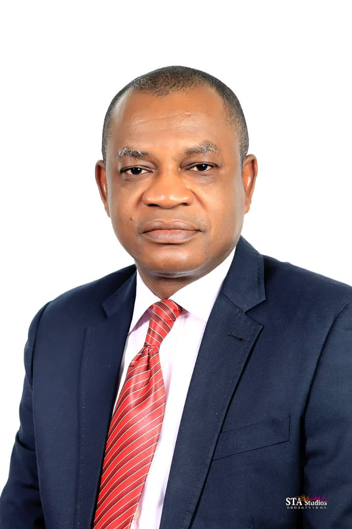 wp #wpng + image . A photograph of Professor Ikechukwu Nosike Dozie